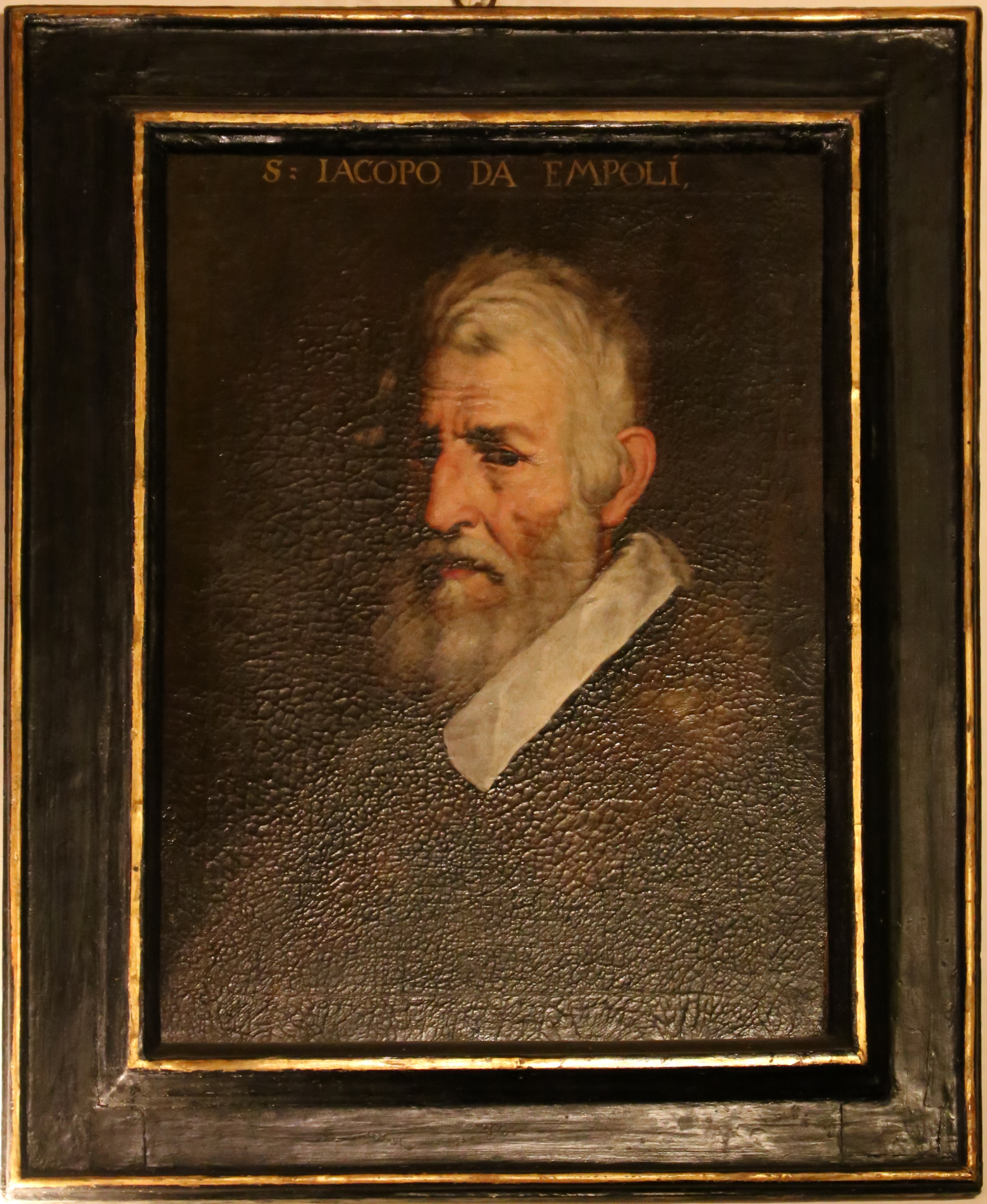 Paintings in the Accademia delle Arti del Disegno (Florence)